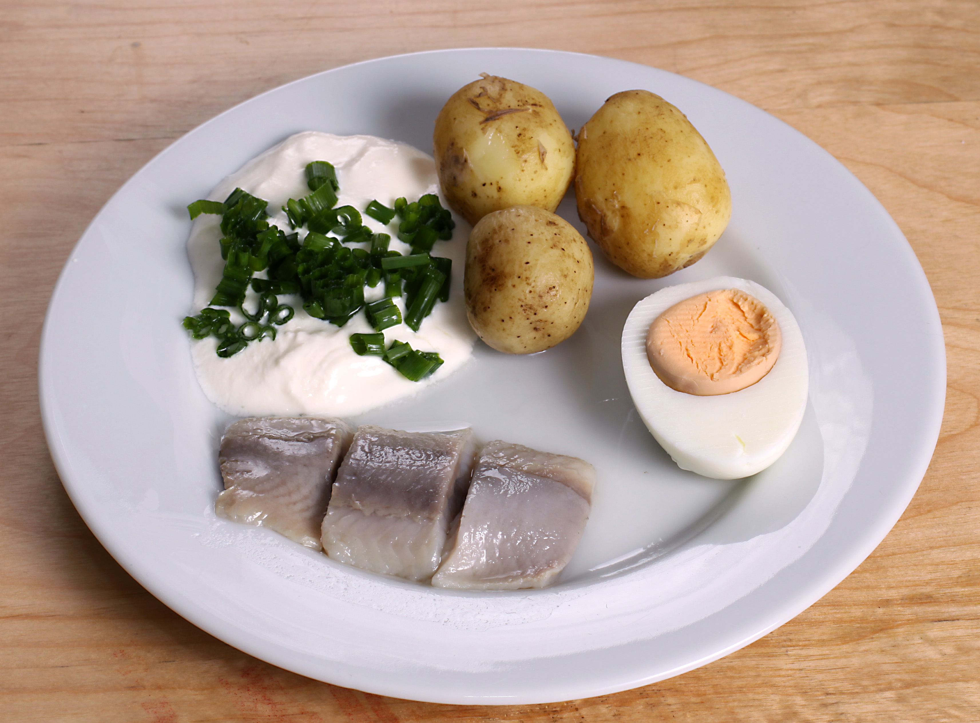 Traditional pickled herring with sourcream and chopped chives, potatoes and an egg half served for the midsummer holliday.